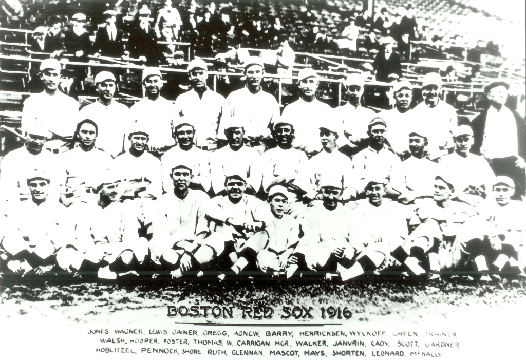 Team photo of the 1916 version of the Boston Red Sox, after they won the World Series. The image was scanned by myself and slightly retouched using the GIMP.